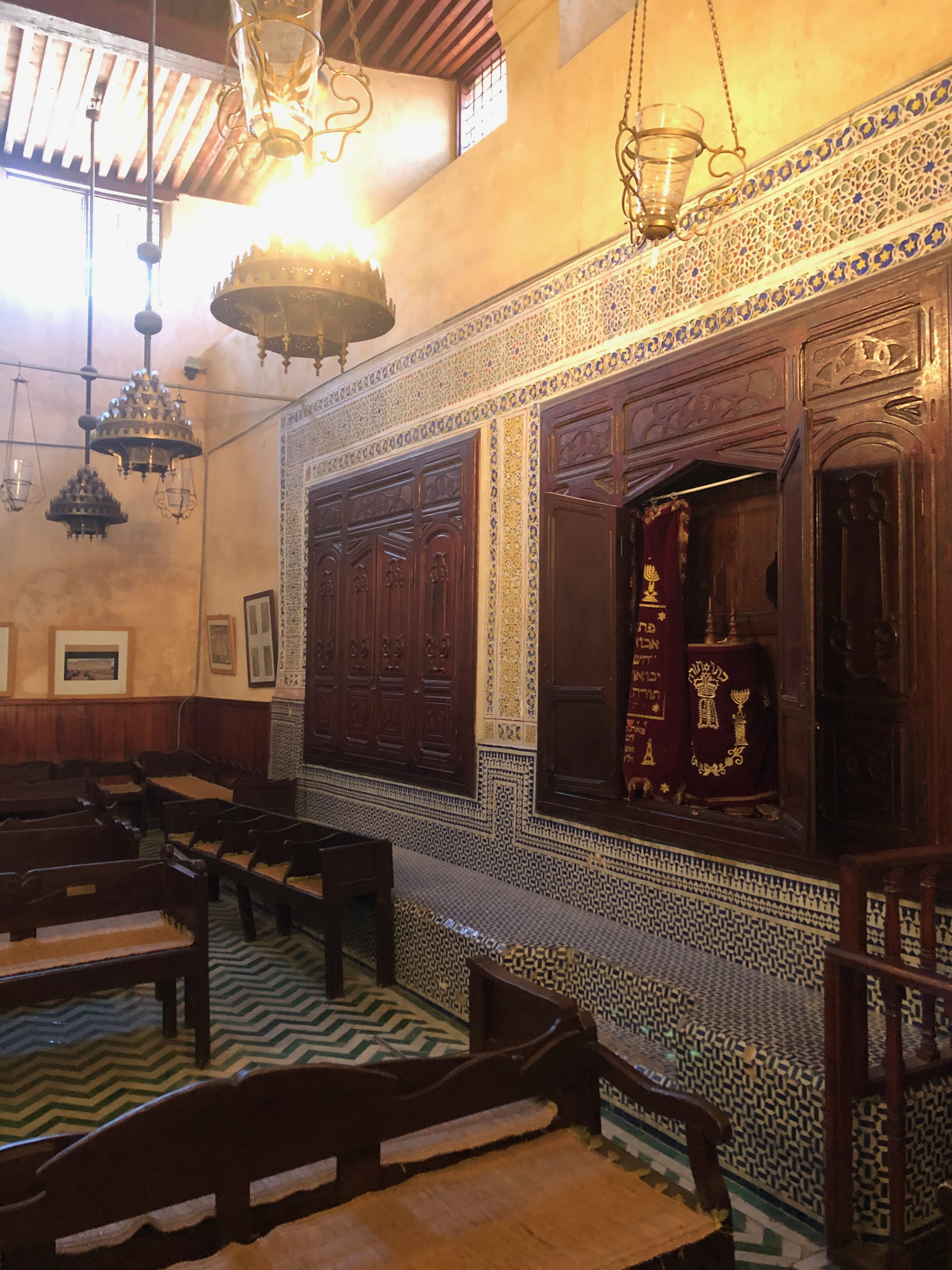 Synagogue Danan sanae:560001